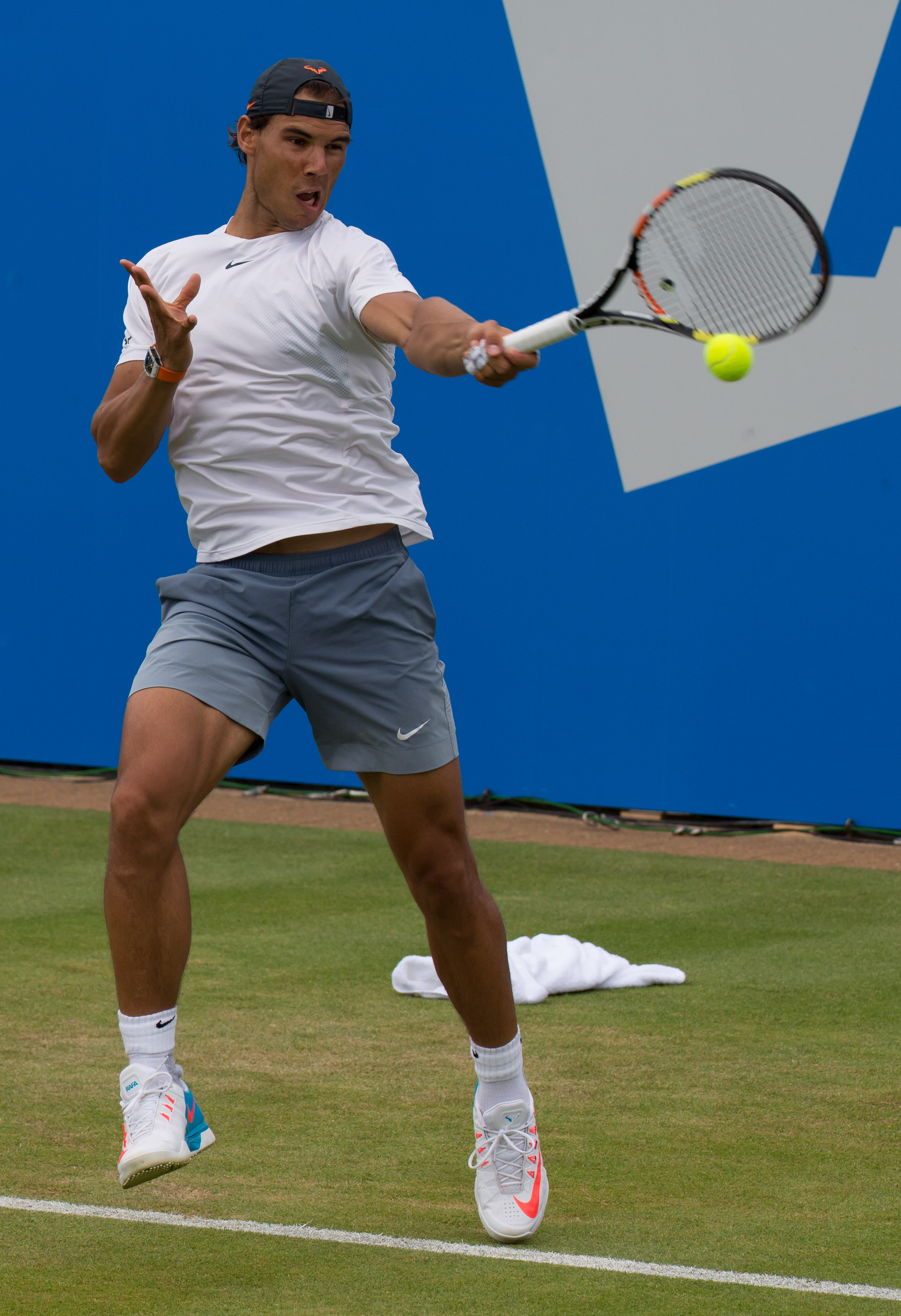 Rafael Nadal during practice at the Queens Club Aegon Championships in London, England.